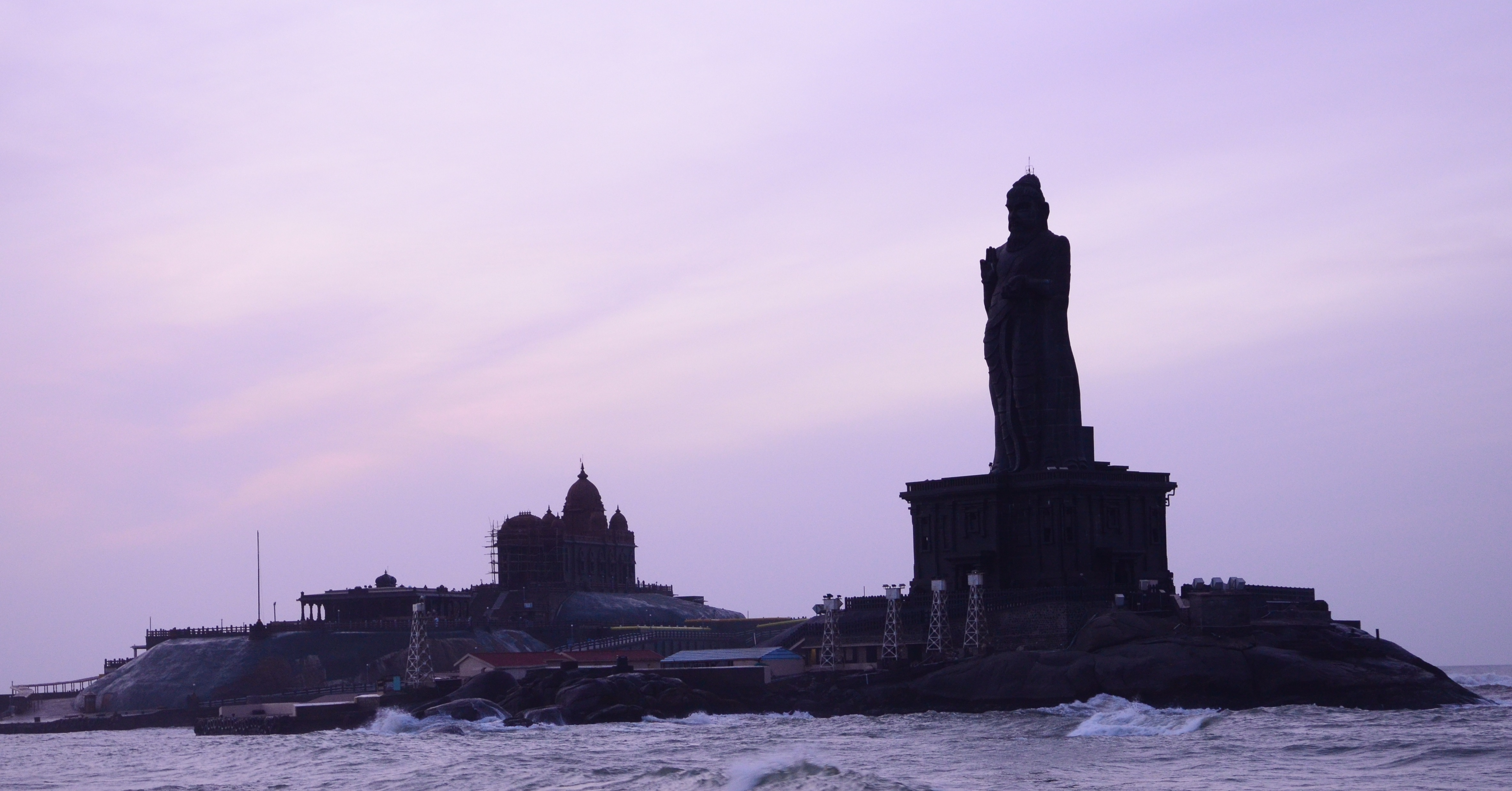 Statue of Tamil poet Thiruvalluvar. Located in Kanyakumari India.